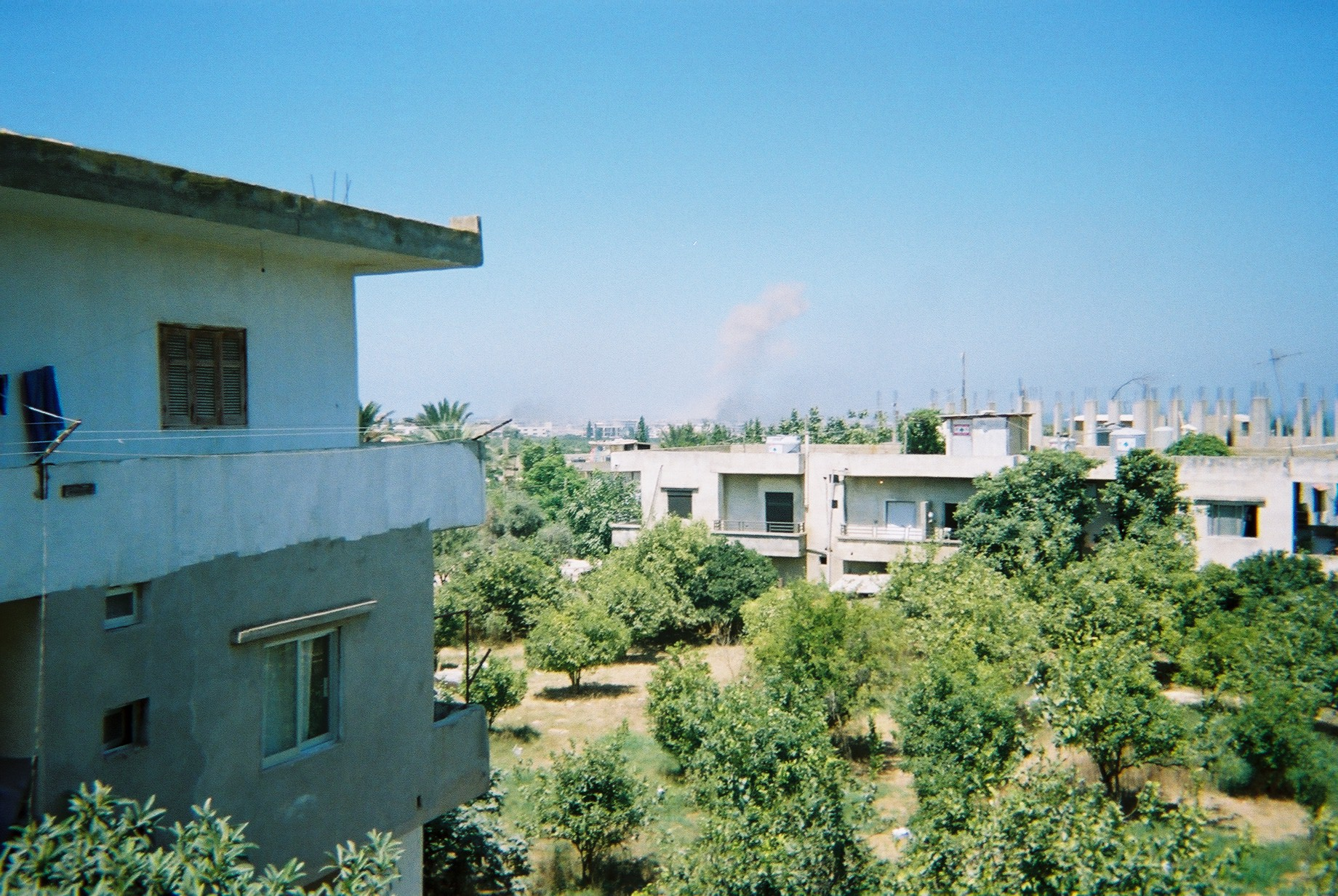 A missile explodes in Nahr al-Bared refugee camp during the 2007 conflict with the terrorist group, Fatah al Islam outside of Tripoli.